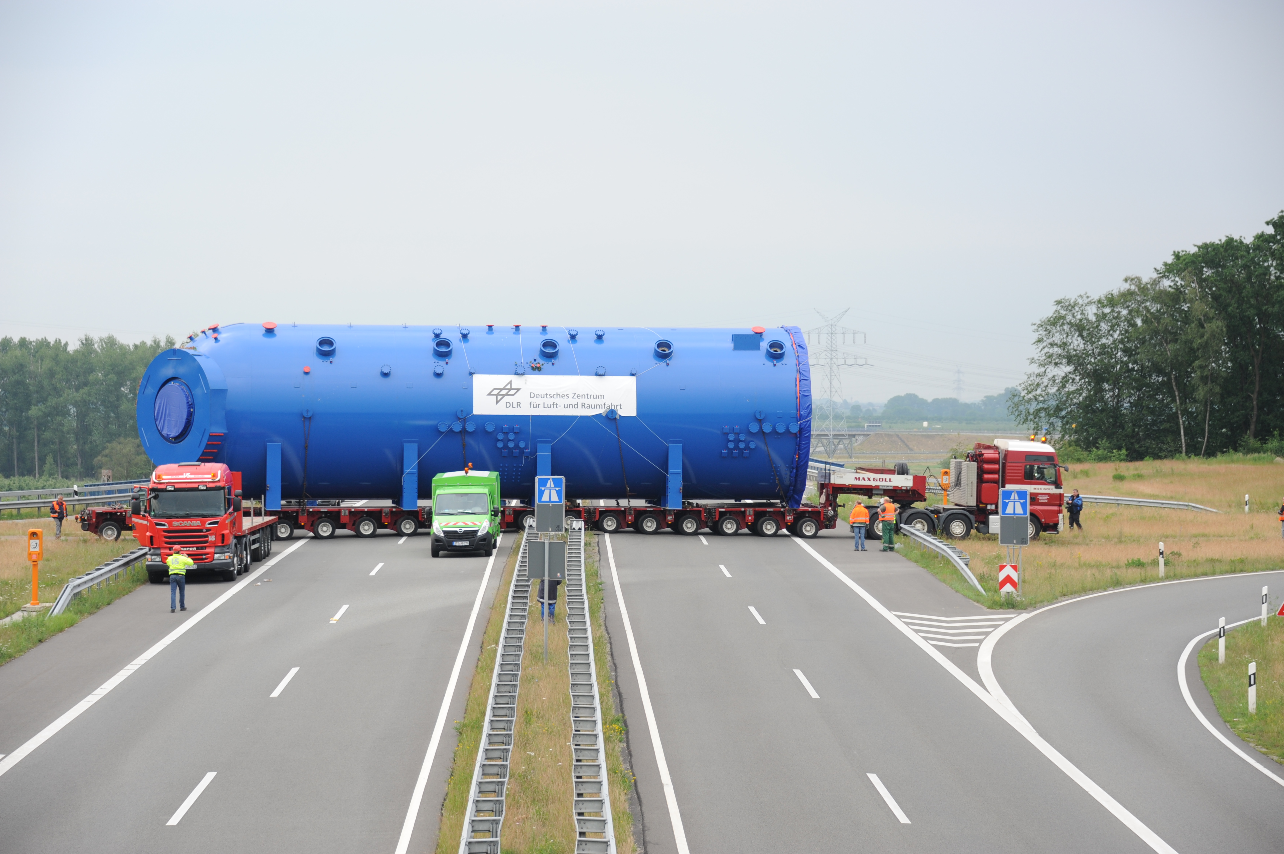 For the research autoclave to be transported to the DLR Center for Lightweight Production Technology (Zentrum für Leichtbauproduktionstechnologie; ZLP), the A26 autobahn was closed to all traffic so that the special transporter could be driven. The autoclave will be used to manufacture large aircraft components such as fuselage sections, wings and control surfaces. Autoclave's length was 27 meteres, diameter 6,5 m, and mass of 165 tonnes.